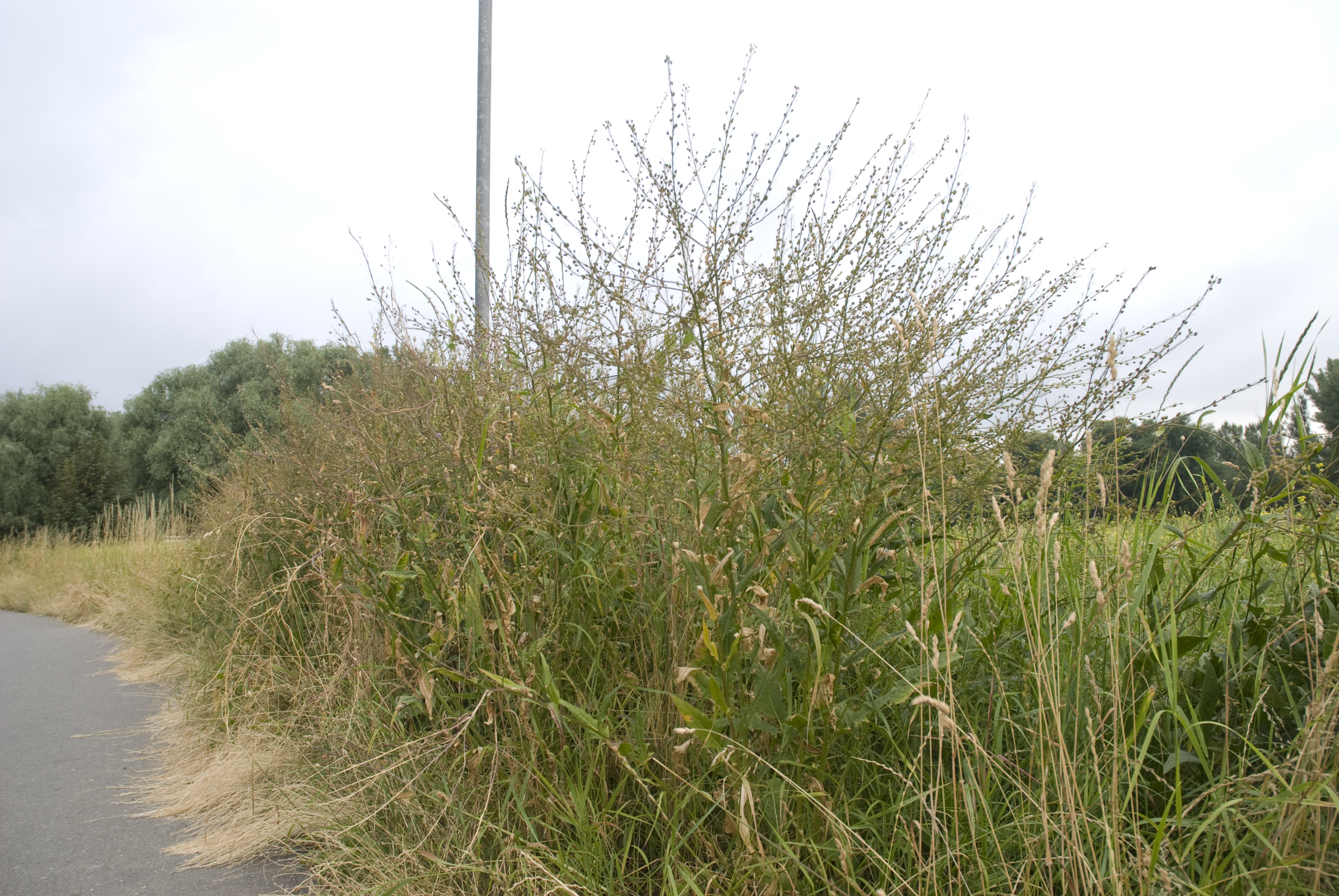 Bunias orientalis, Zackenschötchen, reife Schoten, invasive Art, Neophyt, Jena, Thüringen, Straßenrand, zu späte Mahd